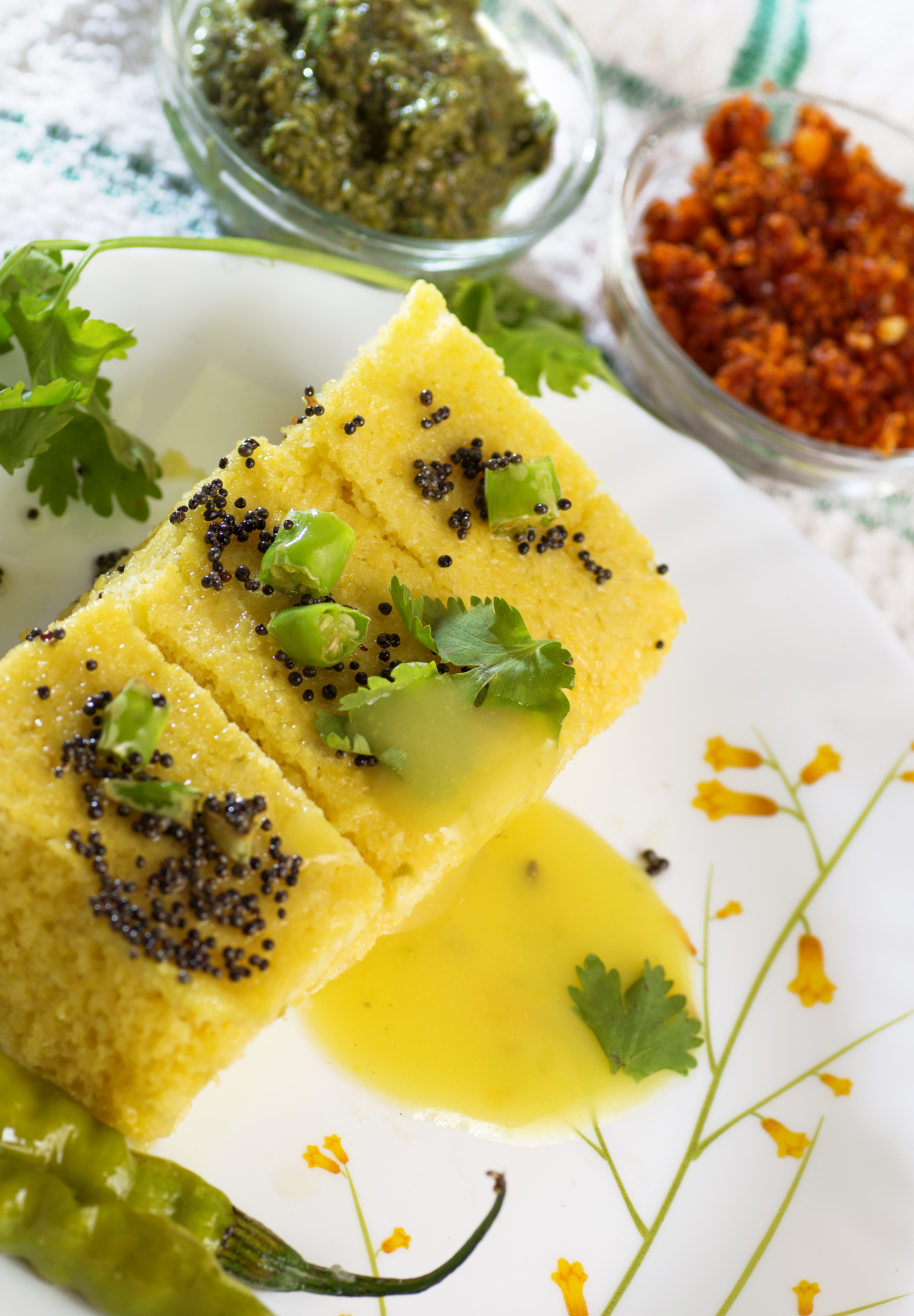 ગુજરાતી: This dish name is khaman, special variety in our breakfast and most of gujarati favourite dish